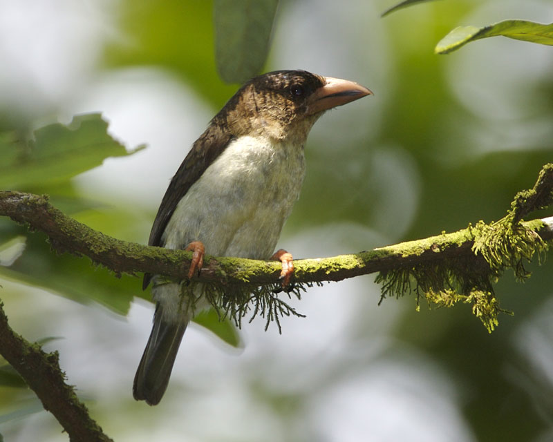 Brown Barbet, Calorhamphus fuliginosus hayii aka Caloramphus fuliginosus Location: Panti Forest, Johor, Malaysia 3rd. September 2006 Malay: Burung Takur Distribuyion